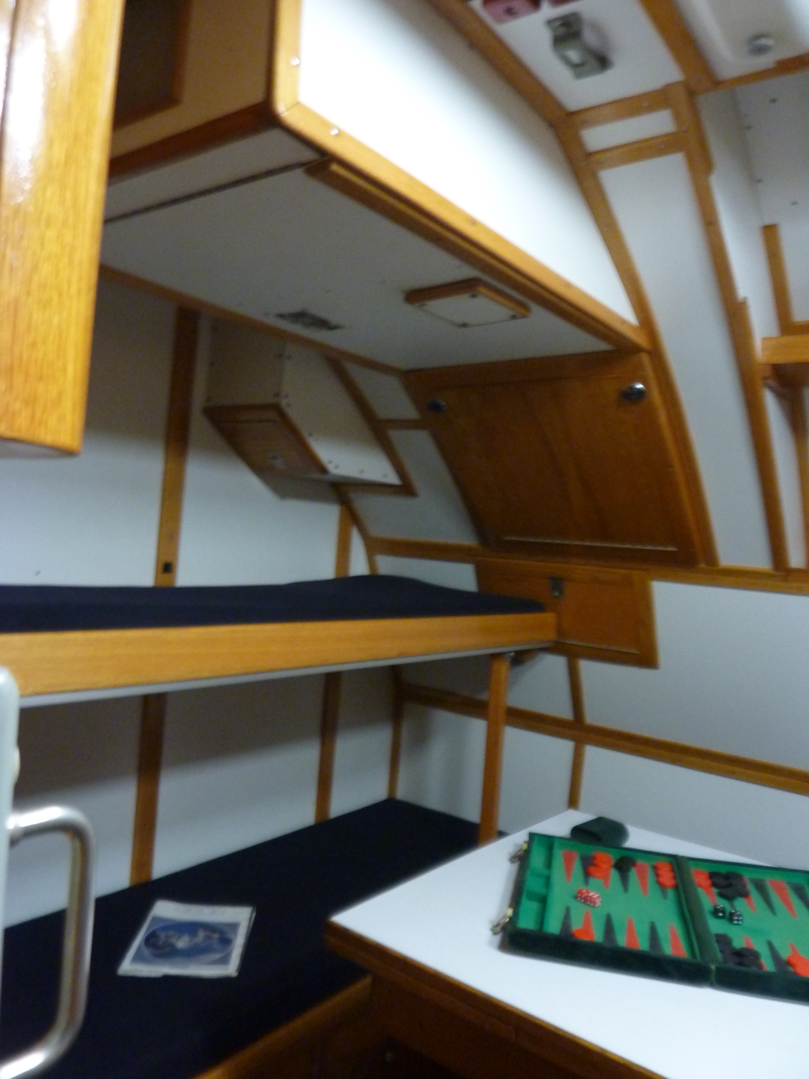 Officers mess of the Onondaga submarine, Site historique maritime de la Pointe-au-pere, Rimouski, Quebec, Canada - 2012-09